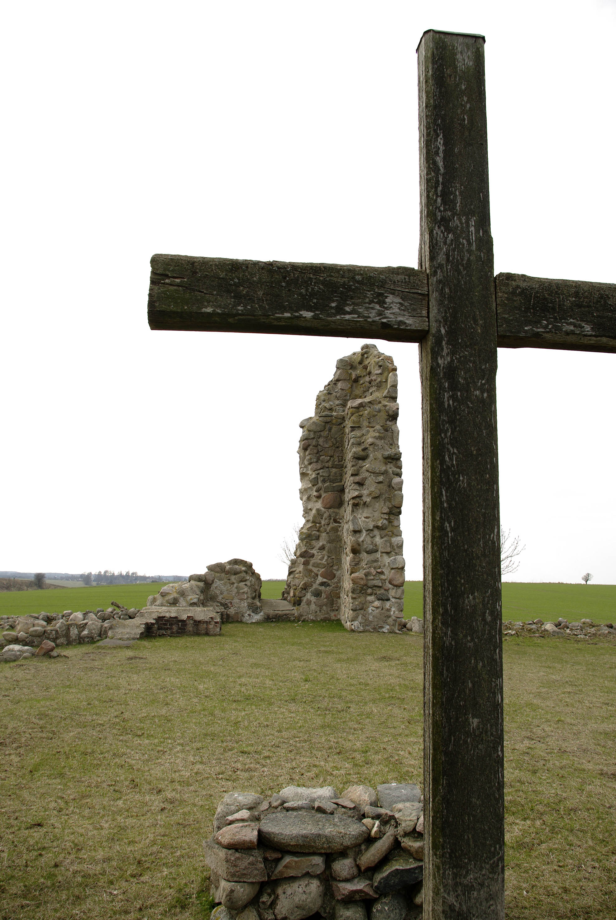 The ruin of the church of Lemmeströ in Scania, Sweden.